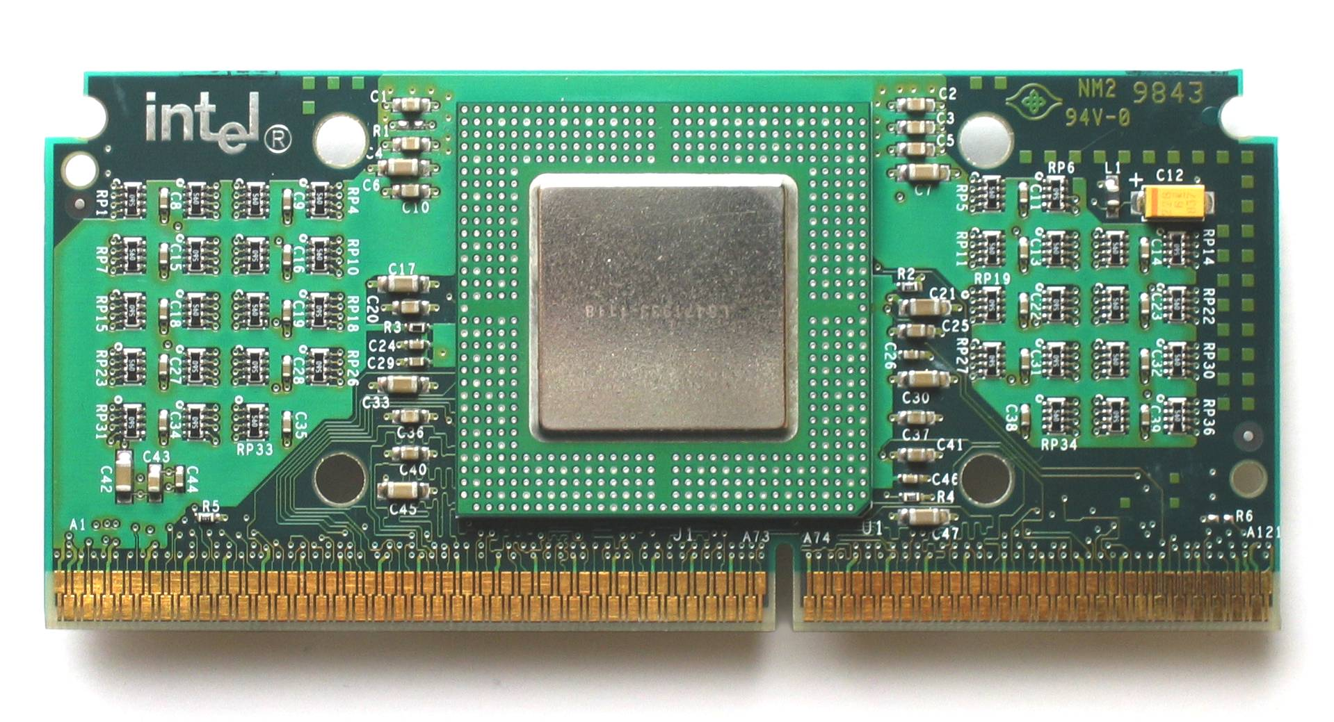 Intel Celeron processor 300A MHz S.E.P.P.